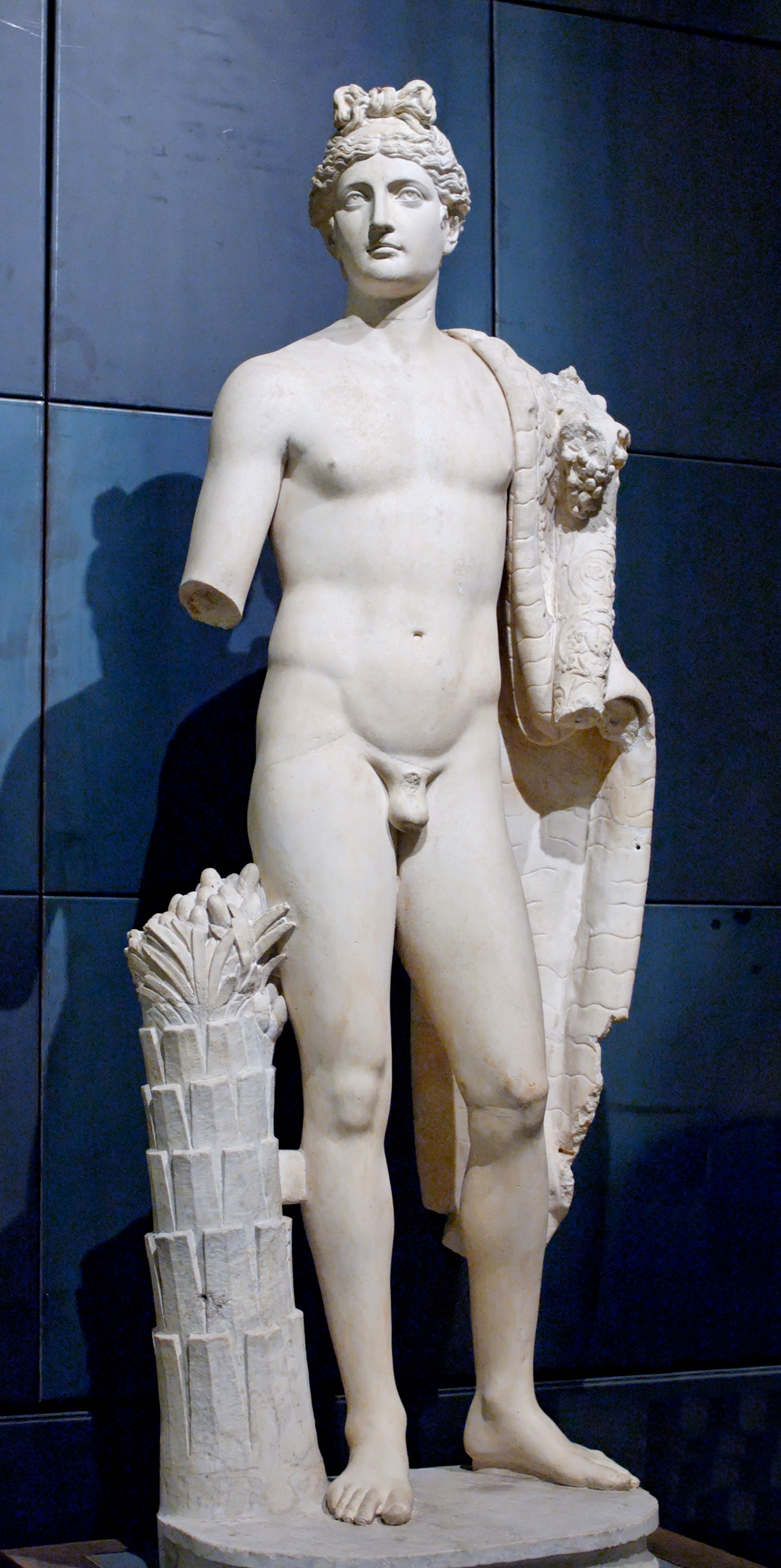 Genius of Emperor Domitianus, with the aegis and a cornucopia.